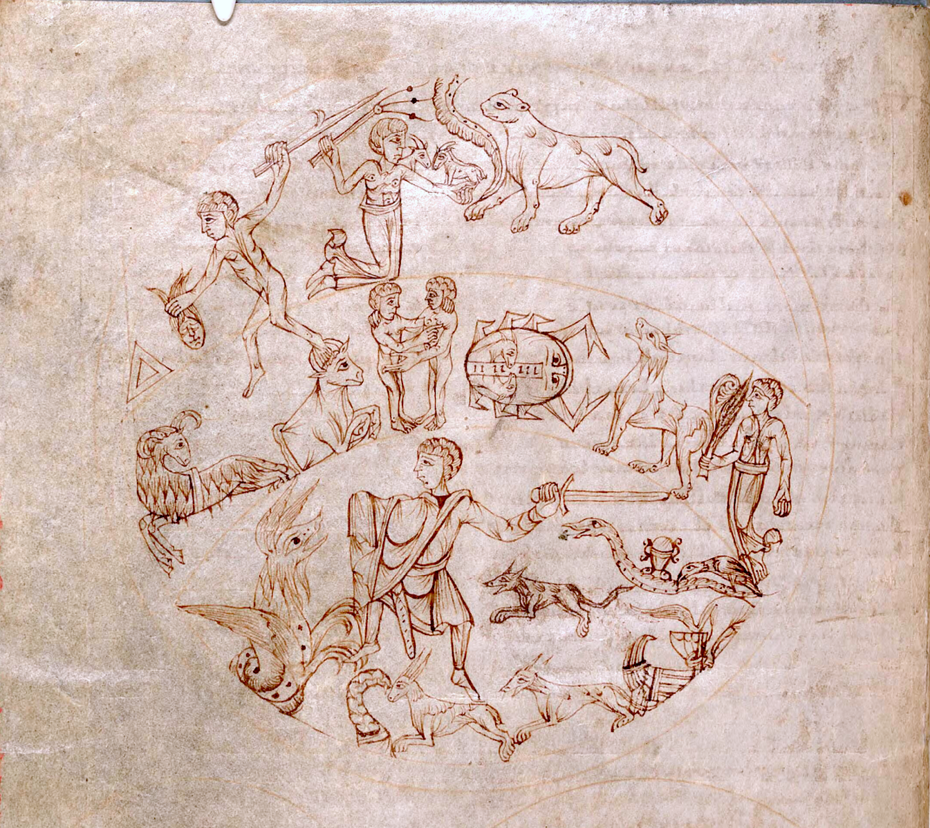 The oldest scientific manuscript in the National Library the volume contains various Latin texts on astronomy. The volume, written in Caroline minuscule, consists of two sections, the first (ff. 1-26) copied c. 1000, in the Limoges area of France, probably in the milieu of Adémar de Chabannes (989-1034), whilst the second (ff. 27-50), from a scriptorium in the same region, may be dated c. 1150.